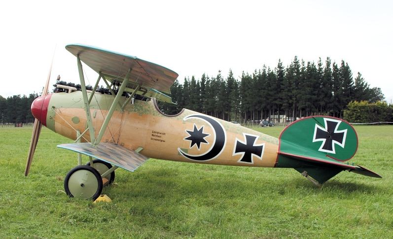 The Vintage Aviator Albatros DVa-1